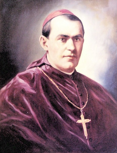 An image of Bishop John Vertin